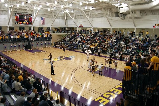 Daniel Randolph